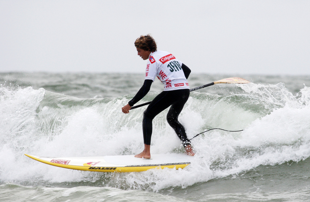 Kai Lenny, Stand up paddle surfing, Windsurf World Cup Sylt 2009